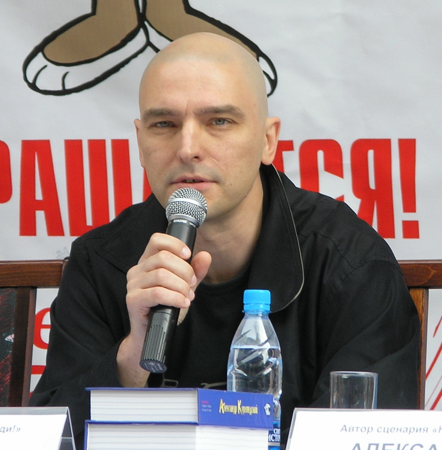 Andrei Derzhavin (Андрей Державин), keyboardist of the Russian rock band Mashina Vremeni, at a press conference at Moscow Zoo on the upcoming premiere of the 19th and 20th episode of the animated series Nu, pogodi! Their production was funded by the discount grocery store chain Pyaterochka. Derzhavin composed the music for the films.